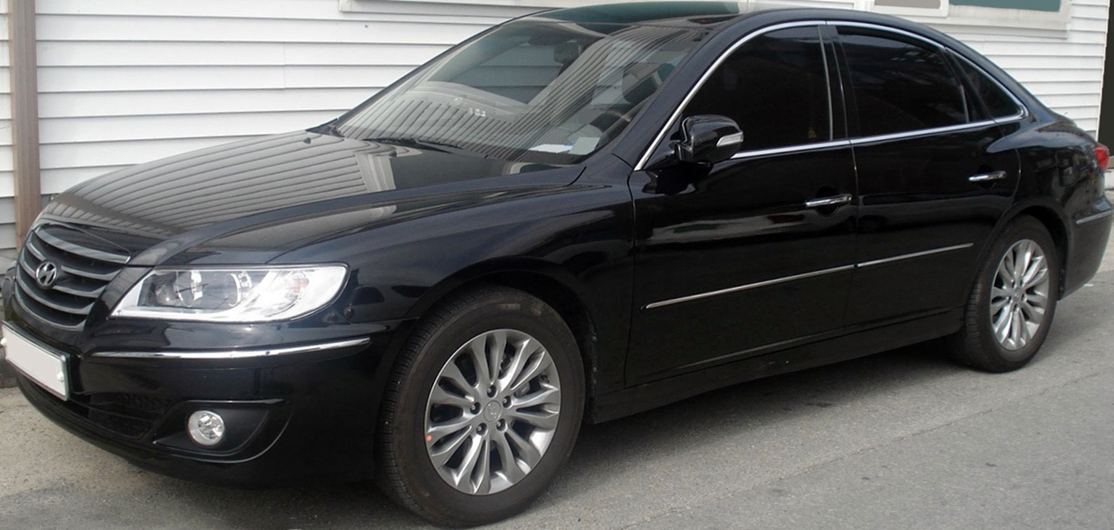 Hyundai The Luxury Grandeur